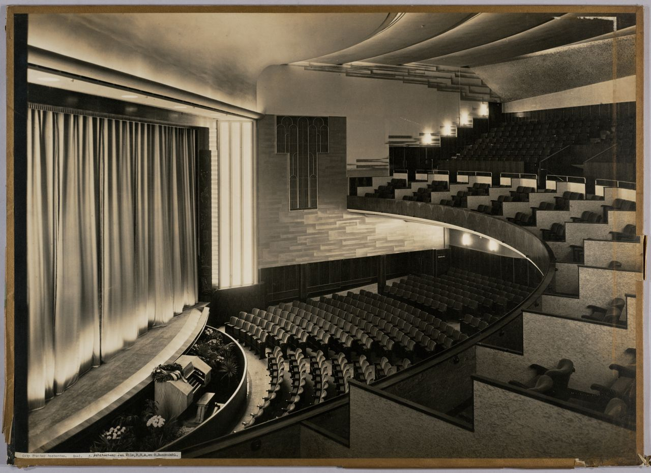 City Theater, Amsterdam, 1935-36. Architect: J. Wils en O. Rosendahl. Fotograaf: onbekend. Collectie NAi / TENT_n112 URL van deze afbeelding: Meer foto's uit deze collectie kunt u bekijken in de Collectiedatabase van het NAi. Niet van alle gebouwen en interieurs zijn alle gegevens bekend. Heeft u meer informatie of weet u het adres van een gebouw? Laat dan een reactie achter (als u ingelogd bent bij Flickr) of stuur een mailtje naar: Al deze foto's zijn gemaakt in de eerste helft van de twintigste eeuw. Wij zijn benieuwd hoe deze gebouwen er vandaag de dag uitzien. Heeft u recente foto's van deze gebouwen of locaties, voeg ze dan toe als commentaar. U kunt een eigen Flickr-foto toevoegen door de URL ervan tussen vierkante haken in het commentaarveld te plakken. Als uw foto's een Creative Commons licentie hebben, nemen we ze bovendien graag op in de NAi Collectiedatabase. City Theatre, Amsterdam, 1935-36. Architect: J. Wils and O. Rosendahl. Photographer: unknown. NAI Collection / TENT_n112 Persistent URL: For more photographs from this collection, please visit the NAI Collection Database You can help us gain more knowledge on the content of our collection by adding a comment with information. If you do not wish to log in, you can write an e-mail to: All these pictures are taken in the first half of the twentieth century. We are curious to learn how these buildings look like today. If you have recently taken photographs of these buildings or locations, please add them to your comment. If you'd like to include a Flickr photo, simply copy and paste its URL between square brackets in the commentary-field. Photos with a Creative Commons licence may be used to illustrate the NAi Collection Database.